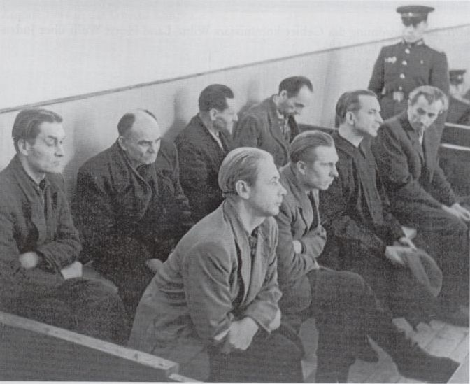 Former members of the TDA Battalion (Pranas Matiukas, Jonas Palubinskas, Boleslovas Čirvinskas, Aleksas Raižys, Leonas Mecius, Juozas Kopūstas, Klemensas Skabickas) were found guilty on 25 September 1961 and later executed